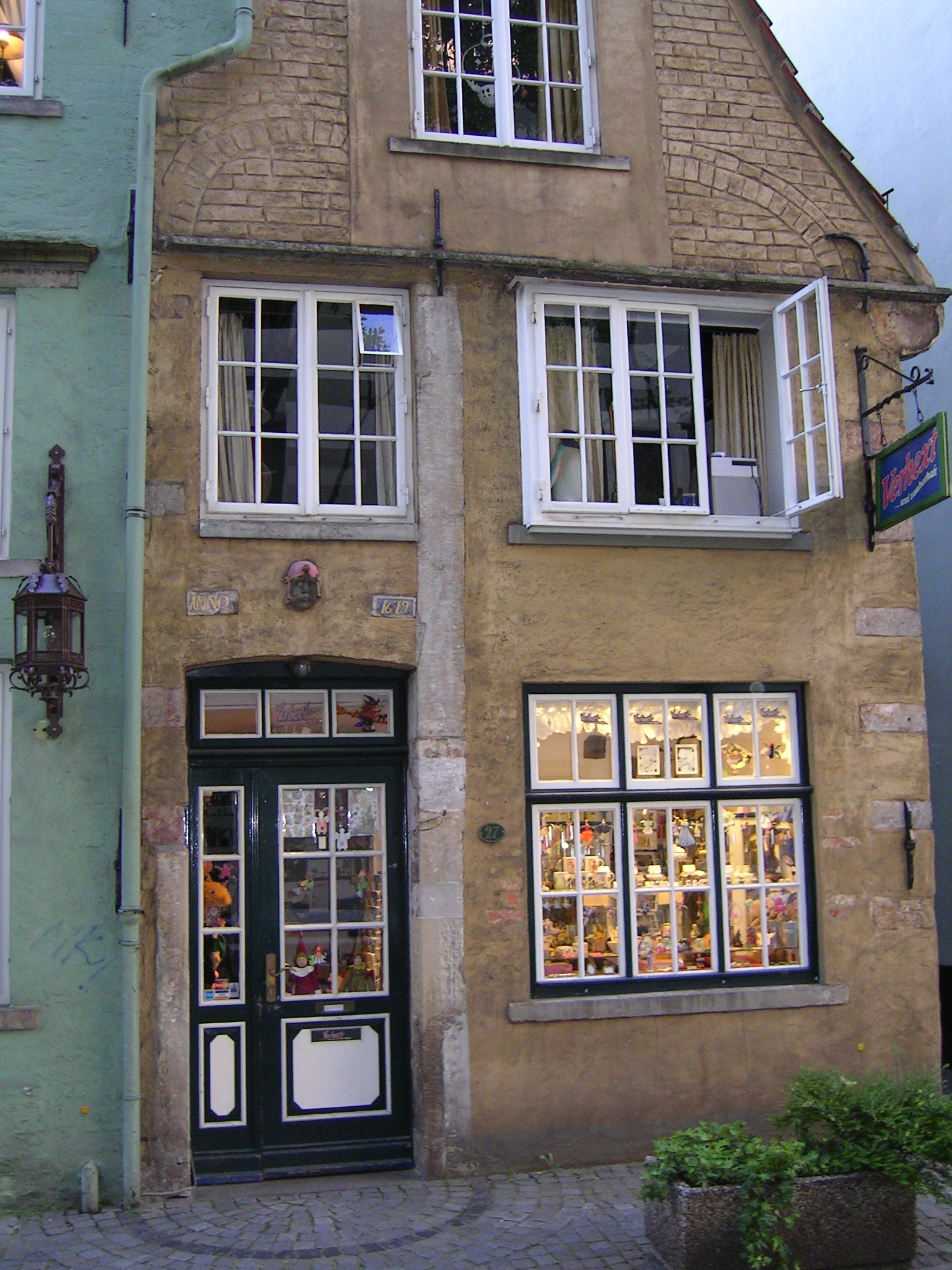 Houses from the 15th and 16th centuries along the narrow alleys in Bremen’s oldest surviving quarter